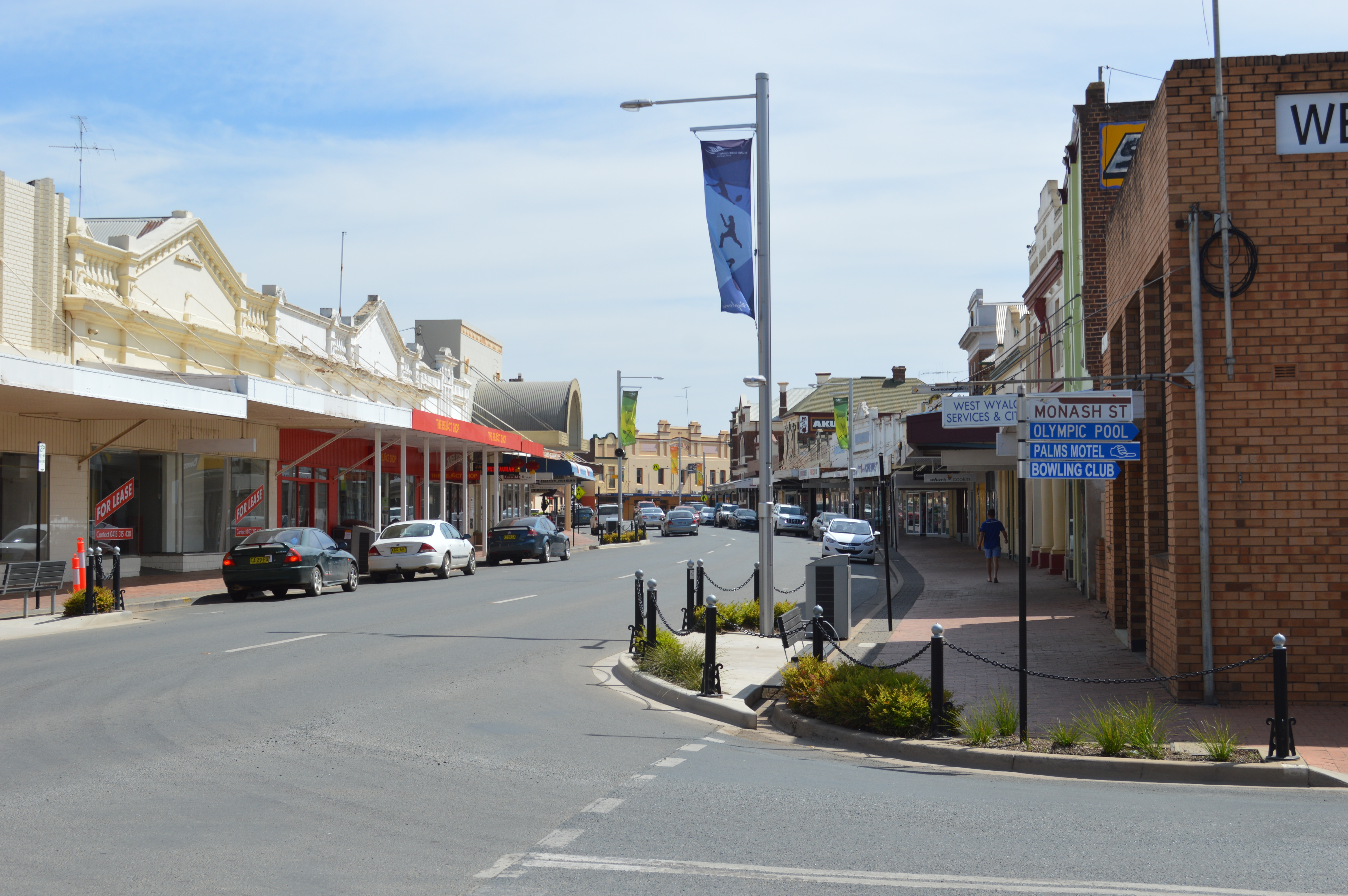 Main Street (Newell Highway) seen from the Template:Russell Drysdale monument at West Wyalong, New South Wales